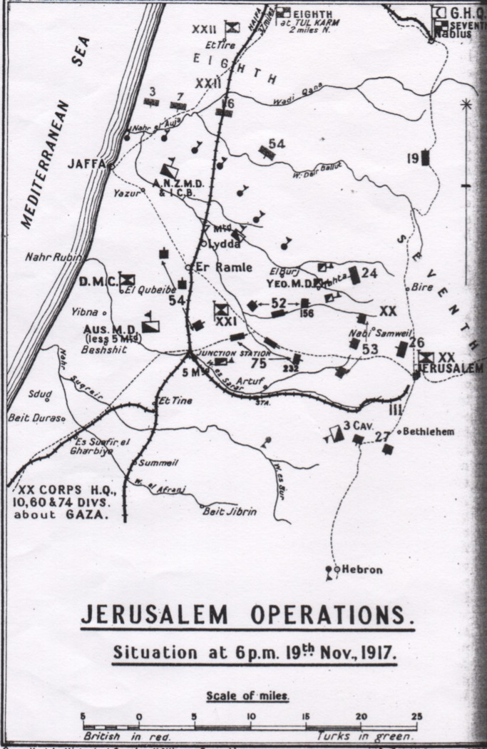 Battle for Jerusalem 1917. Map showing situation at 18:00 19 November 1917.